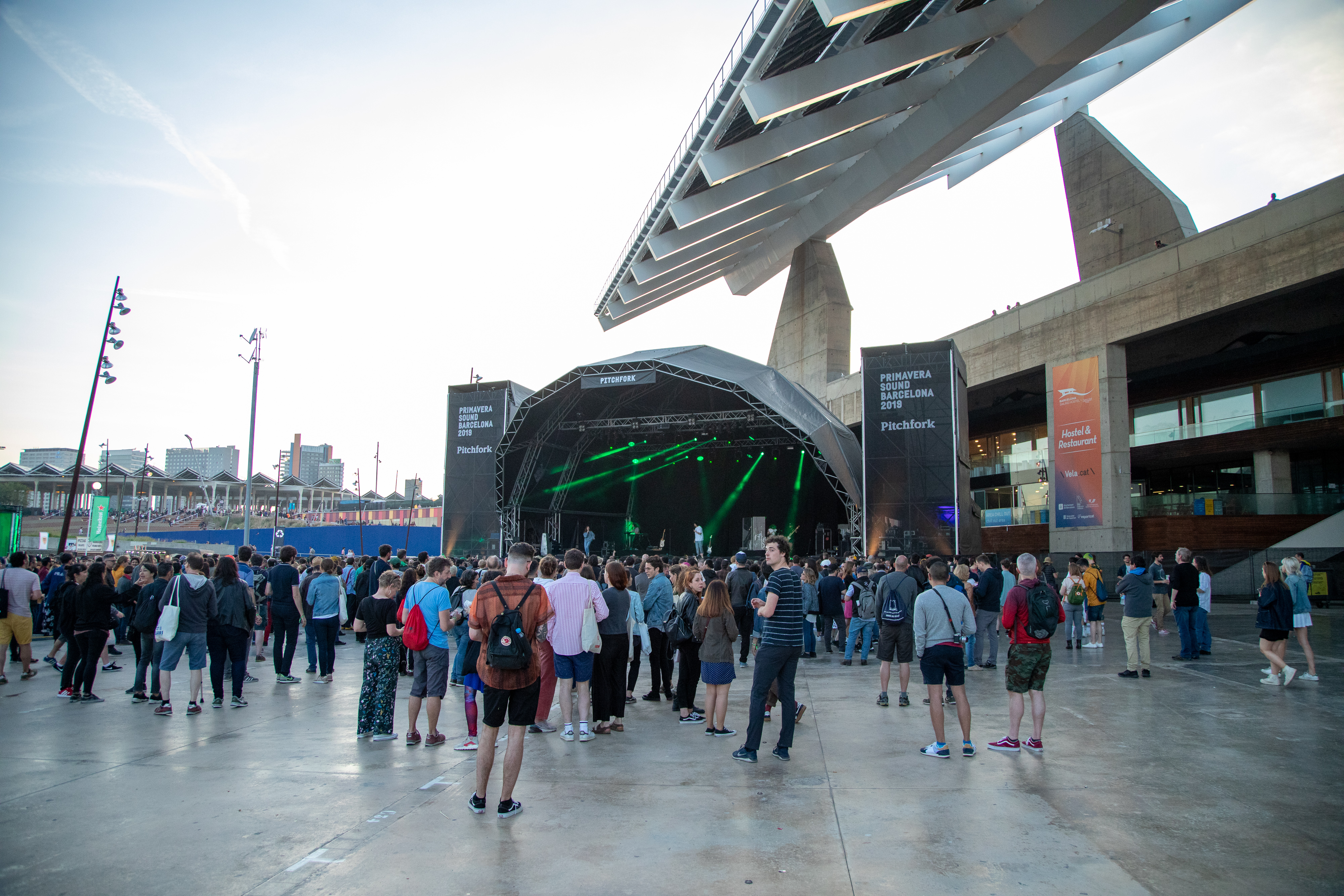 Clairo performing at Primavera Sound.